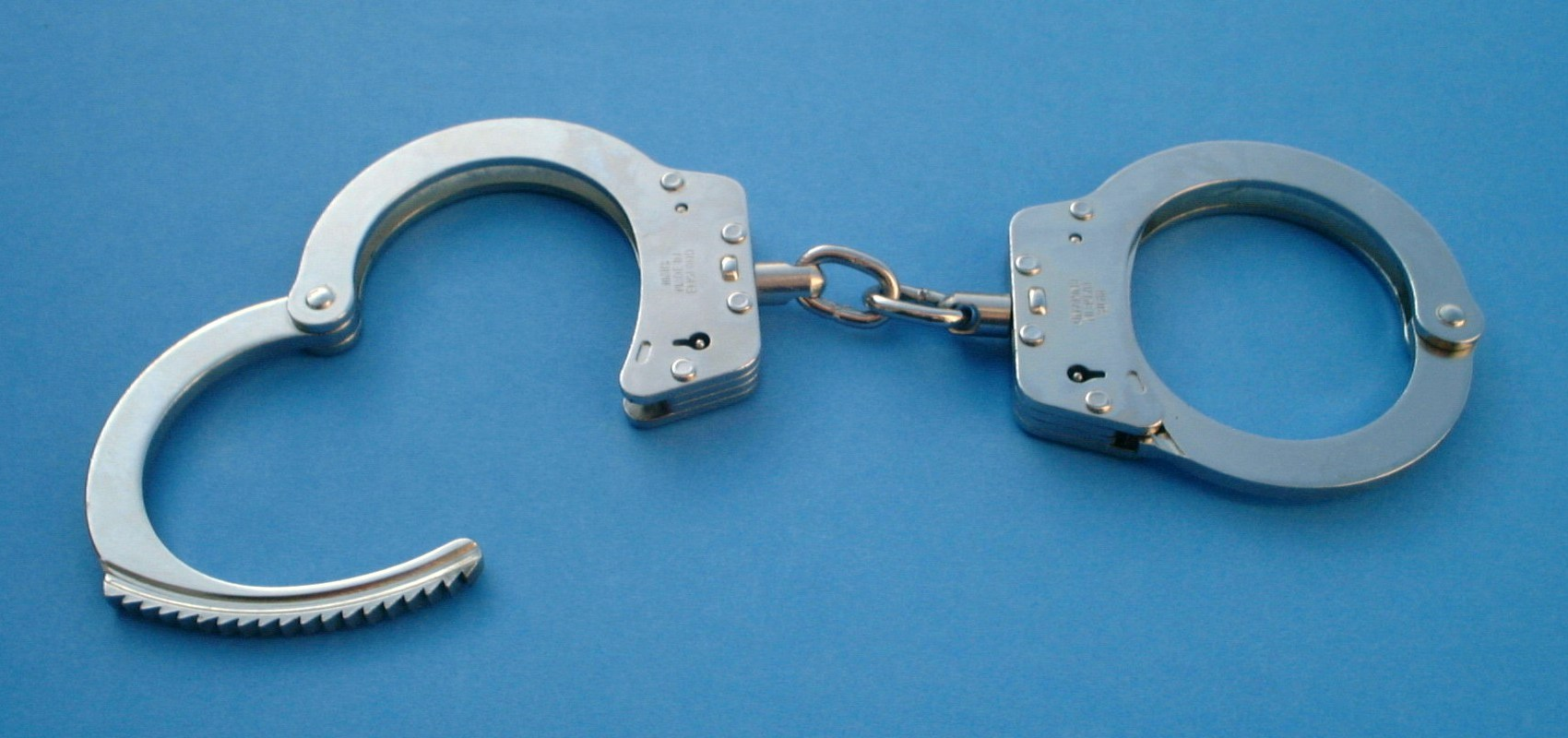 handcuffs own photo